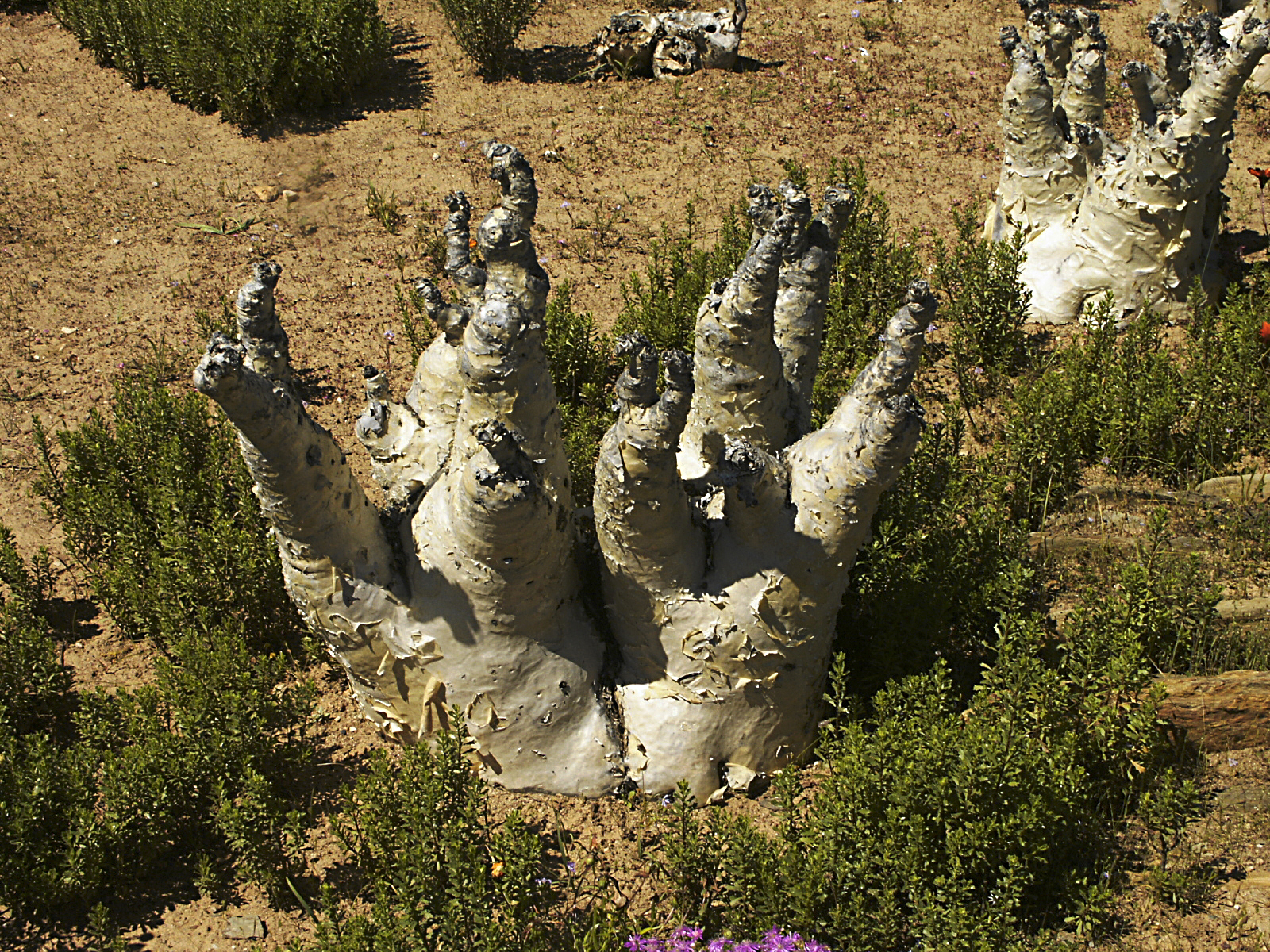 Succulent plant of the genus Tylecodon (family Crassulaceae) in the Karoo Desert National Botanical Garden, Western Cape, South Africa.